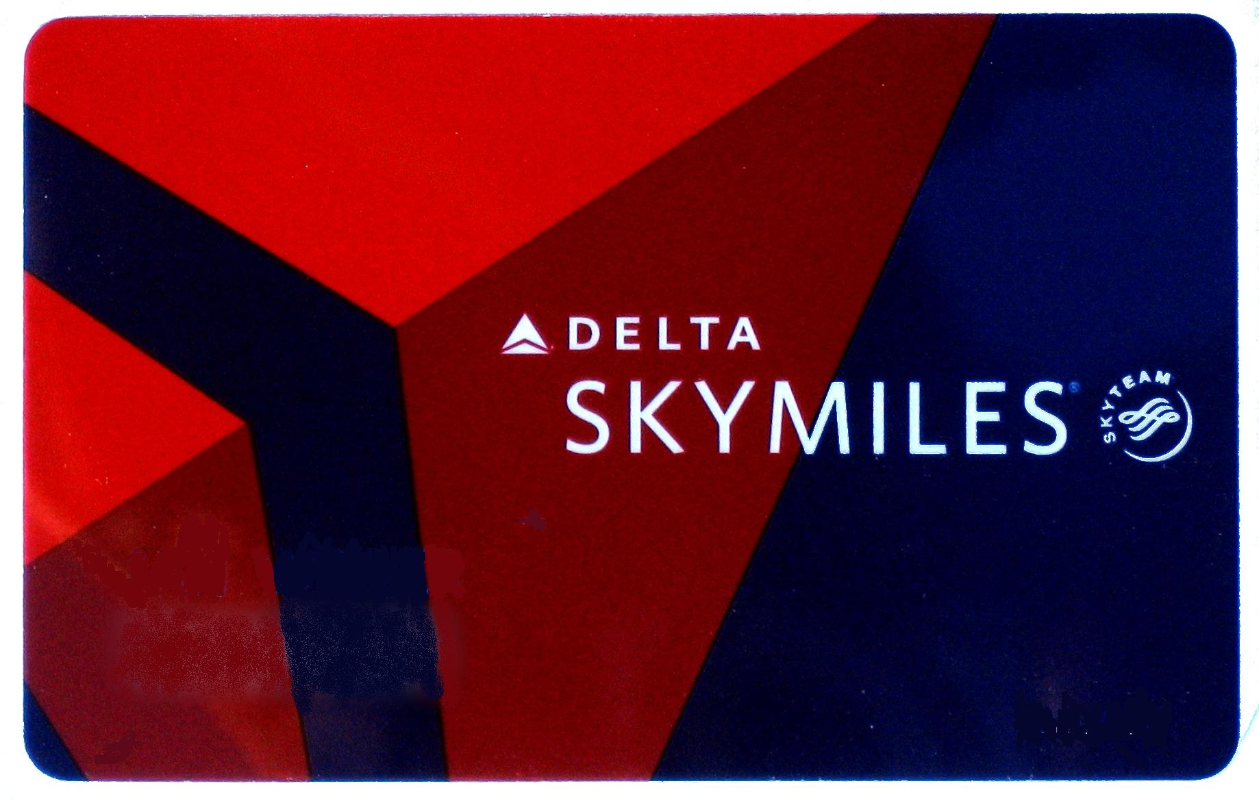 Front of a Delta Skymiles membership card. The Skymiles number is blurred out. The back consists of a magnetic strip, a barcode with the member's Skymiles number, and phone numbers to call Delta Reservations.